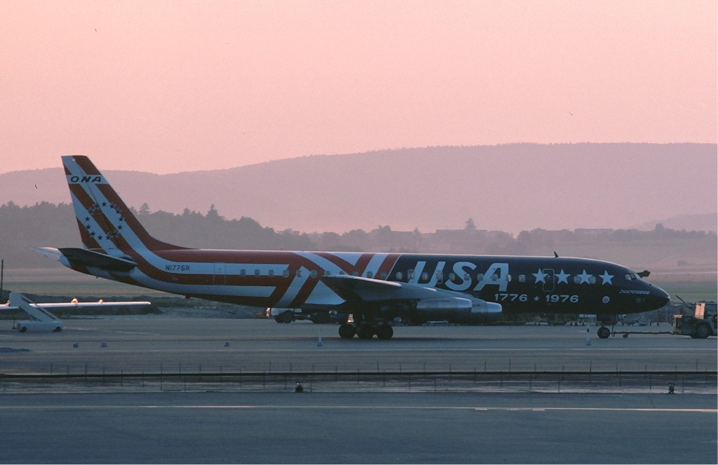 A Douglas DC-8 of Overseas National Airways at Zurich Airport